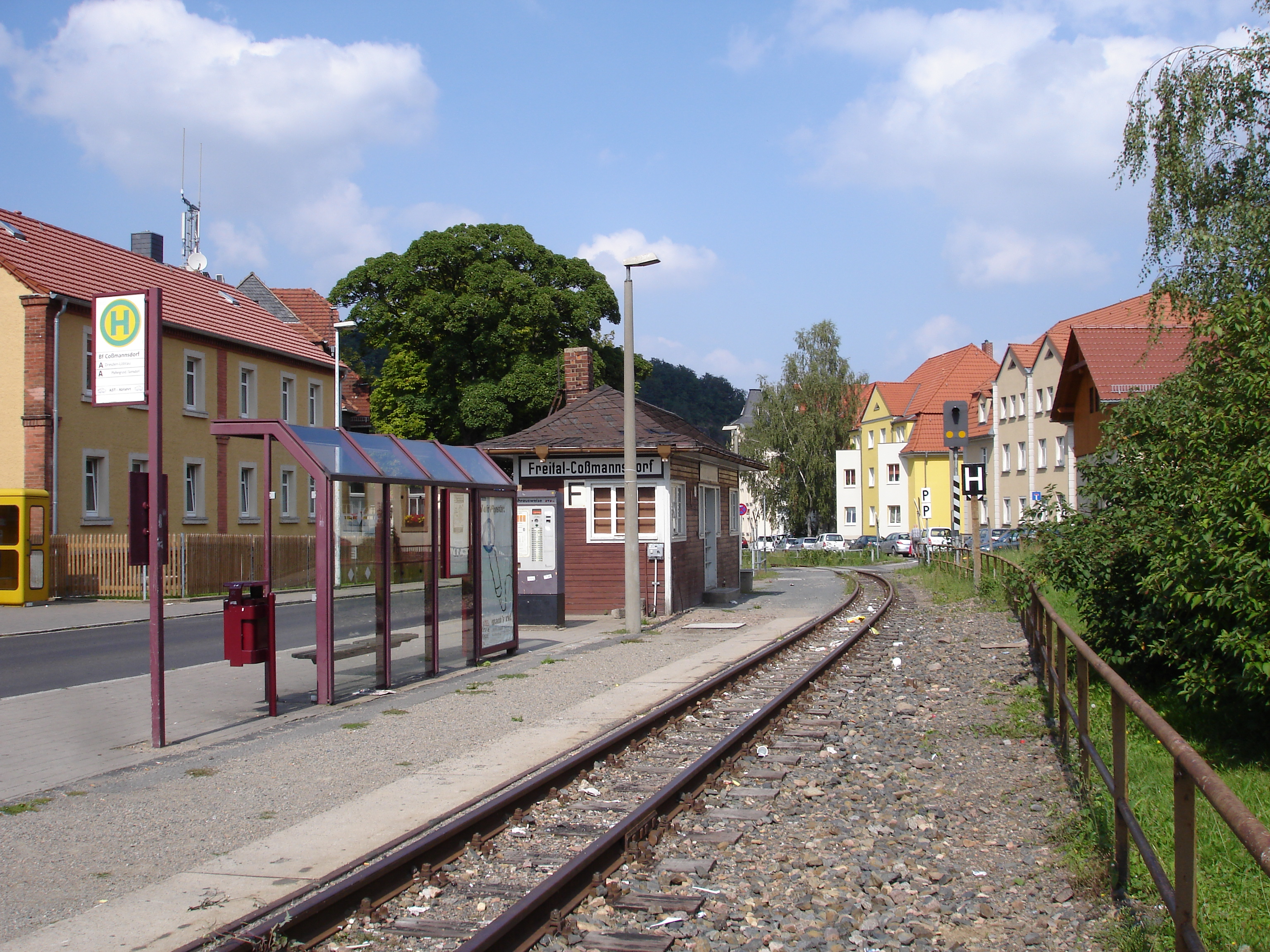 station Freital-Coßmannsdorf, Weißeritztalbahn, Saxony, Germany